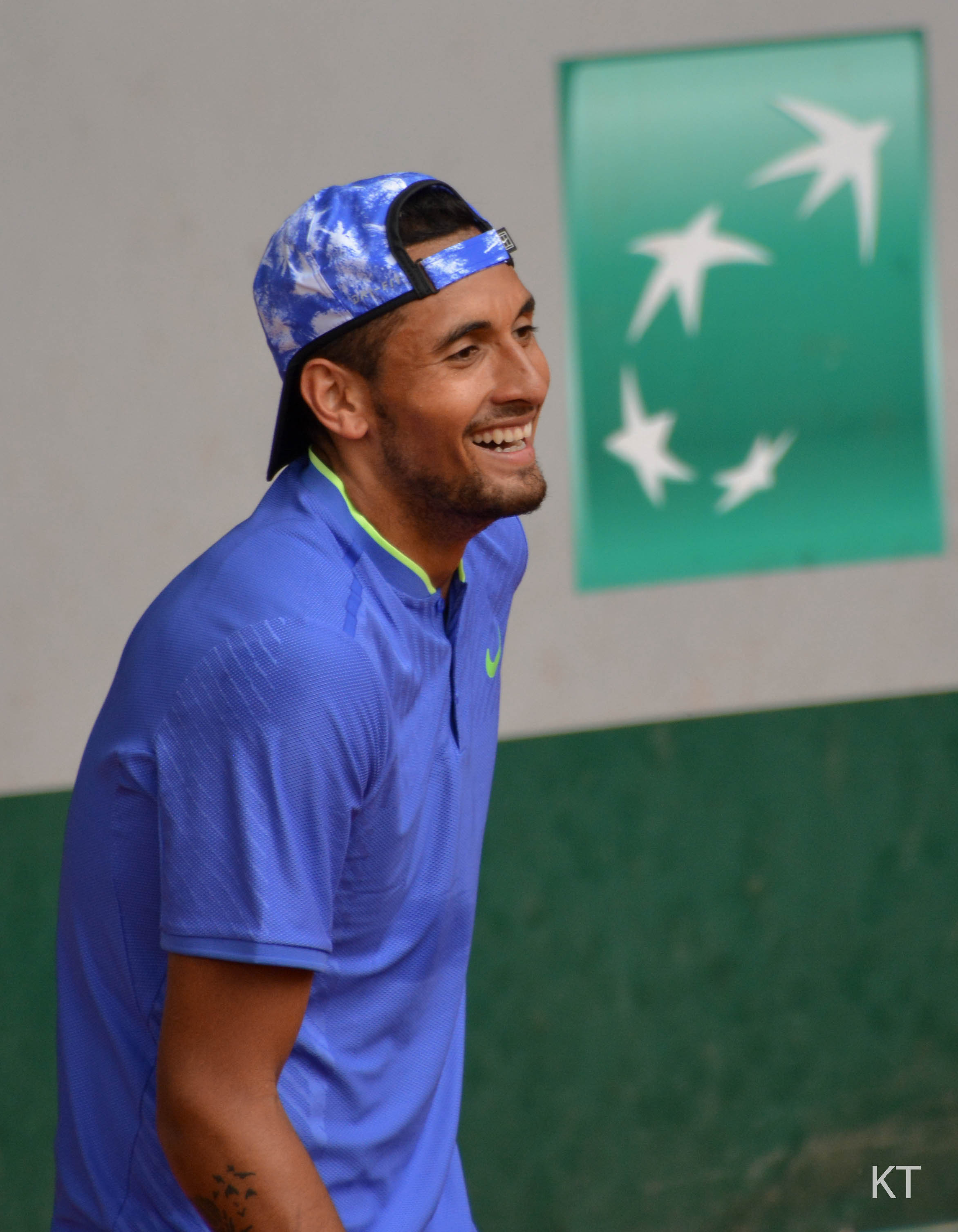 Day 6 of Roland Garros 2017.